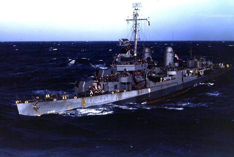 The U.S. Navy destroyer USS Cotten (DD-669) steaming at sea, circa 1945, as seen from the attack transport USS Sanborn (APA-193).